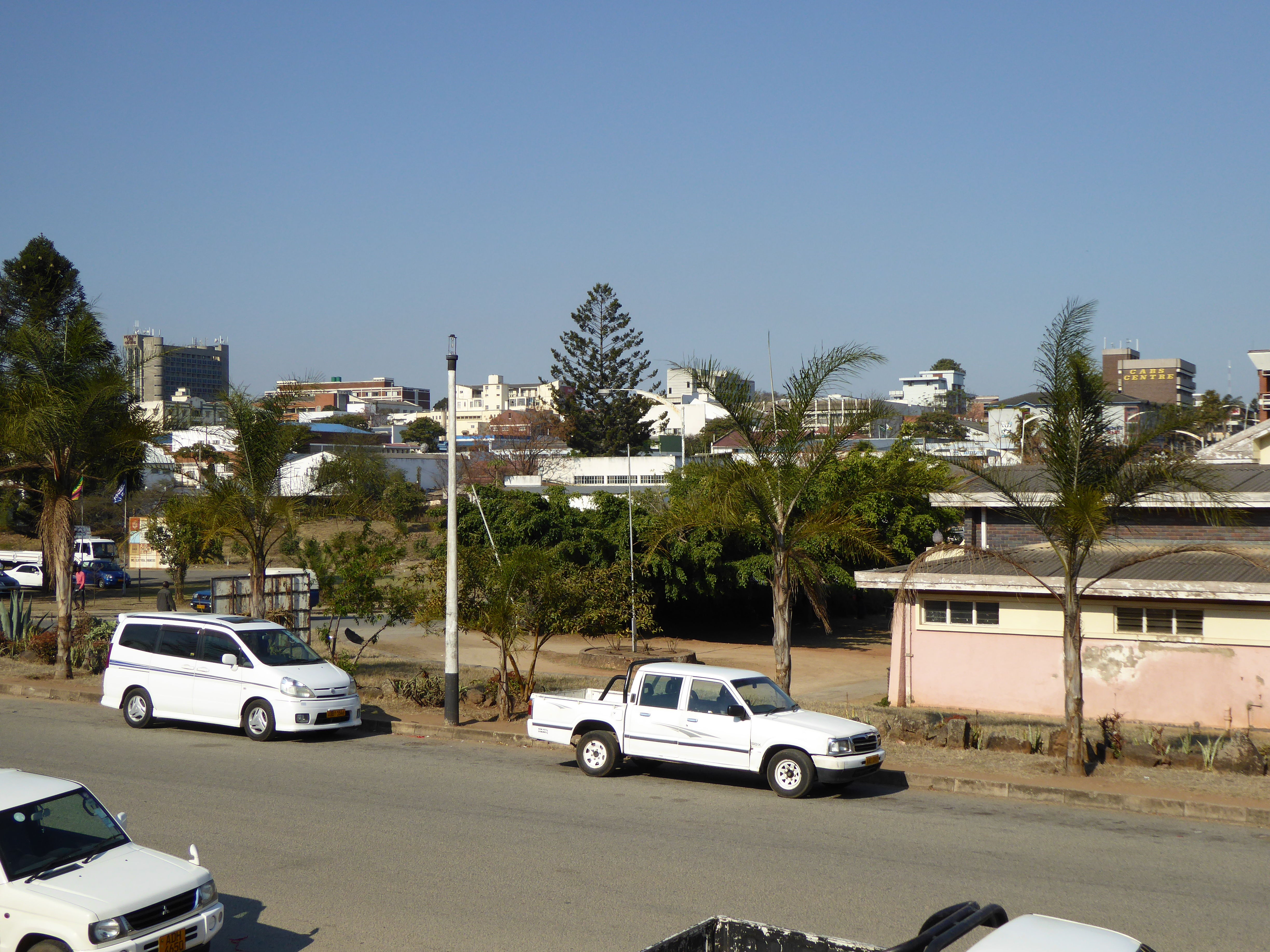 Mutare uptown viewed from Queensway.